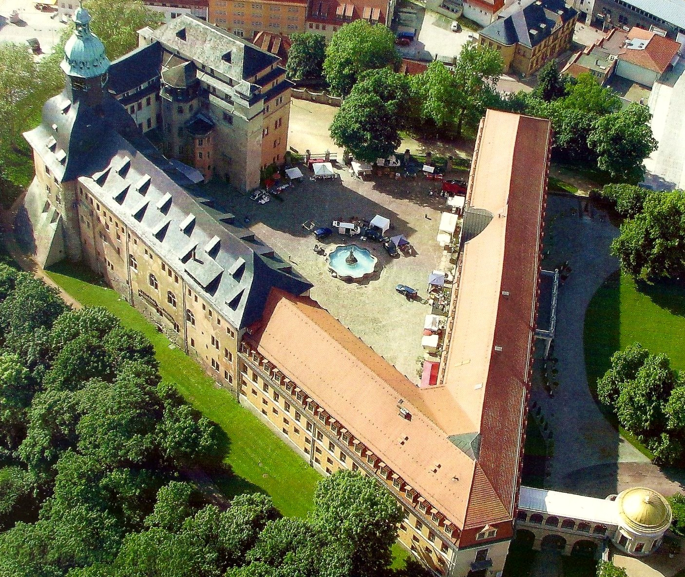 Sondershausen Palace, Sondershausen/Thuringia (Germany)